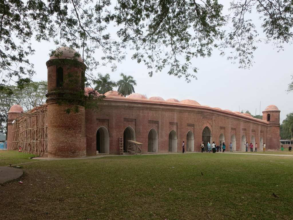 Shait Gumbad Mosque (1459) at Bagerhat, Bangladesh, has 77 domes although the name translates "60 Dome Mosque".